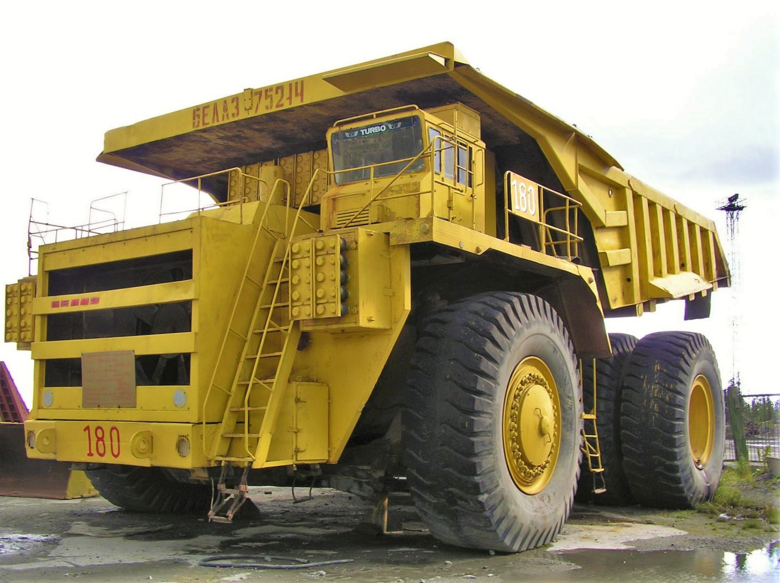 BelAZ-75214 haul truck.